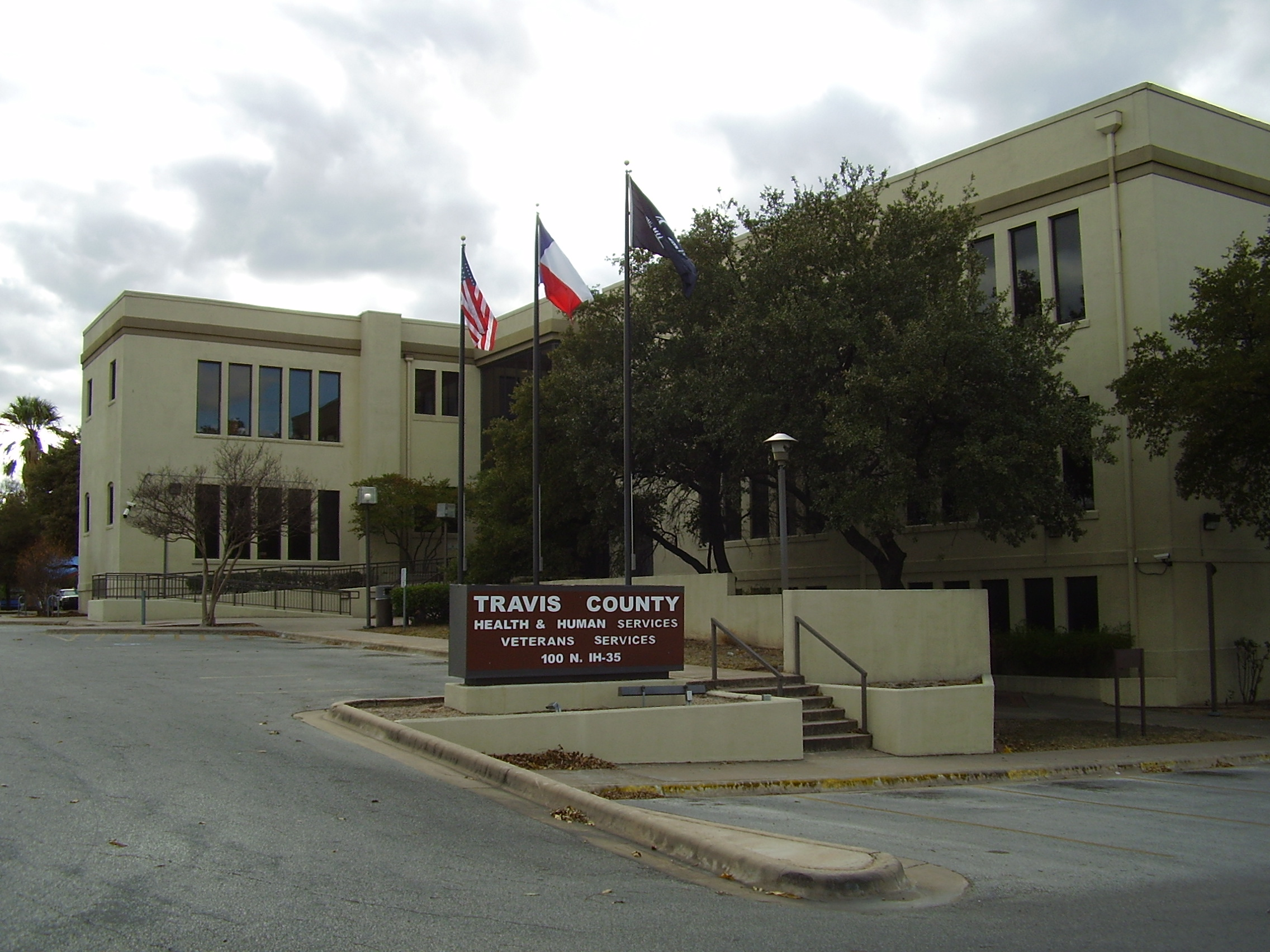 Travis County Health and Human Services and Veterans Services - Formerly the Palm School